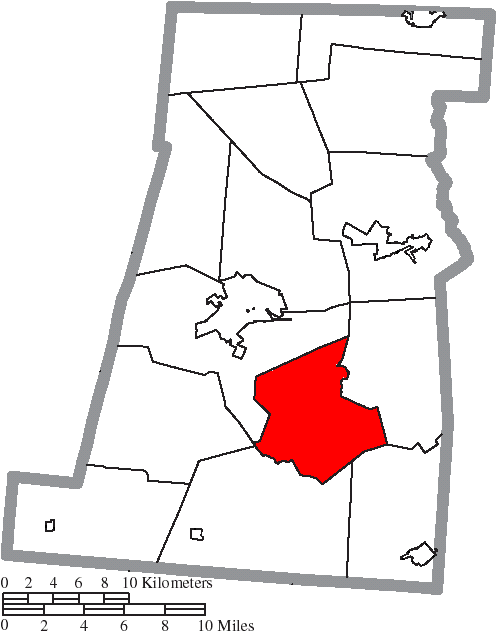 Map of the municipal and township boundaries of Madison County, Ohio, United States, as of the 2000 census, with the location of Oak Run Township highlighted. Township borders are shown only in unincorporated areas in order to differentiate incorporated and unincorporated areas more clearly.